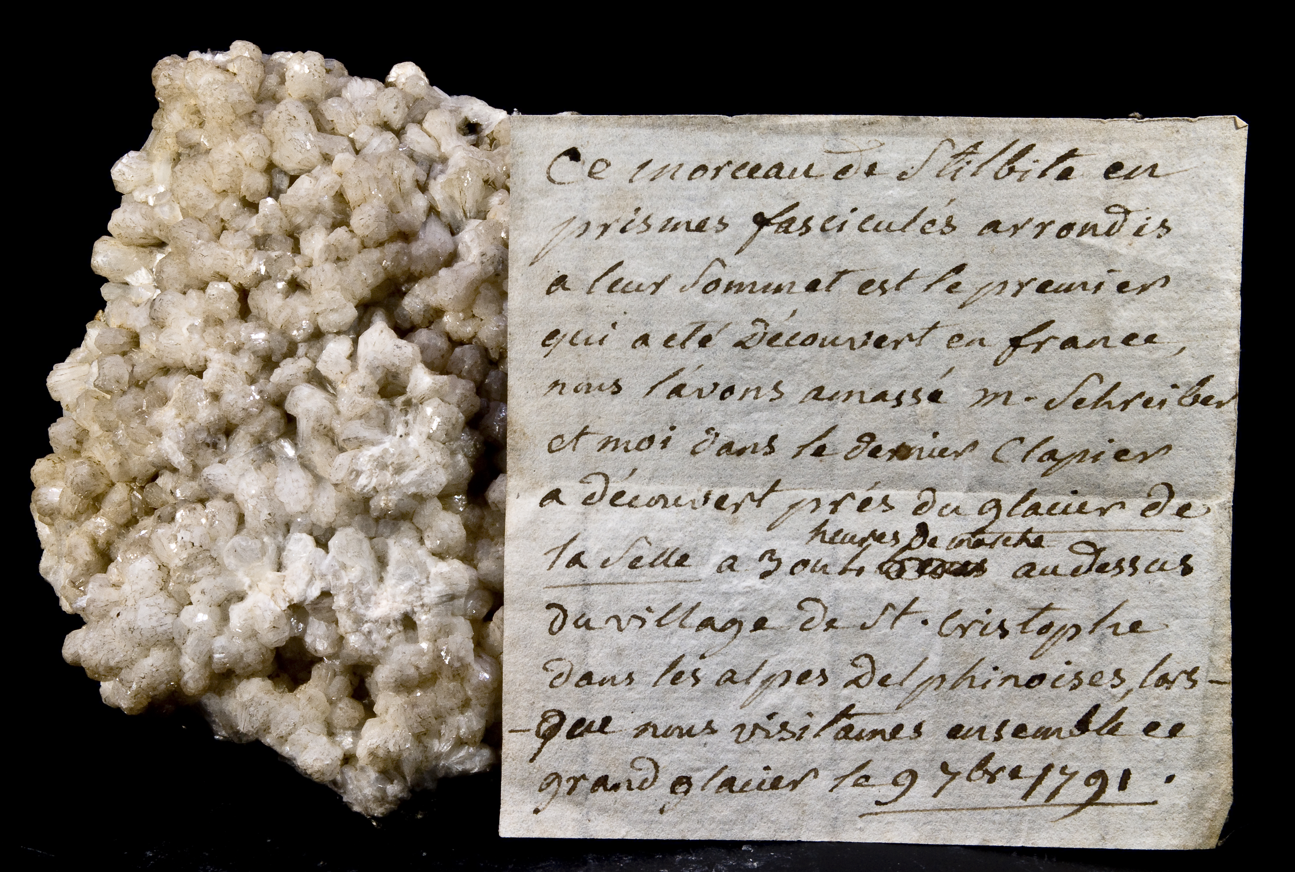 Stilbite - Found by Jean-Godefroy Schreiber (1746-1827) in 1791 Locality : Saint-Christophe-en-Oisans Isères France.